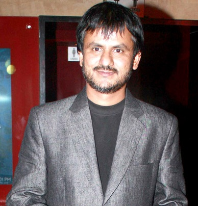 Girish Kulkarni at Masala Premier